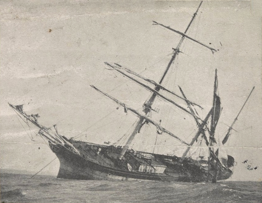 „Gladbrook“ ex County of Anglesea; one 19 December 1945 the Gladbrook was towed out and beached on Rangitoto Island.